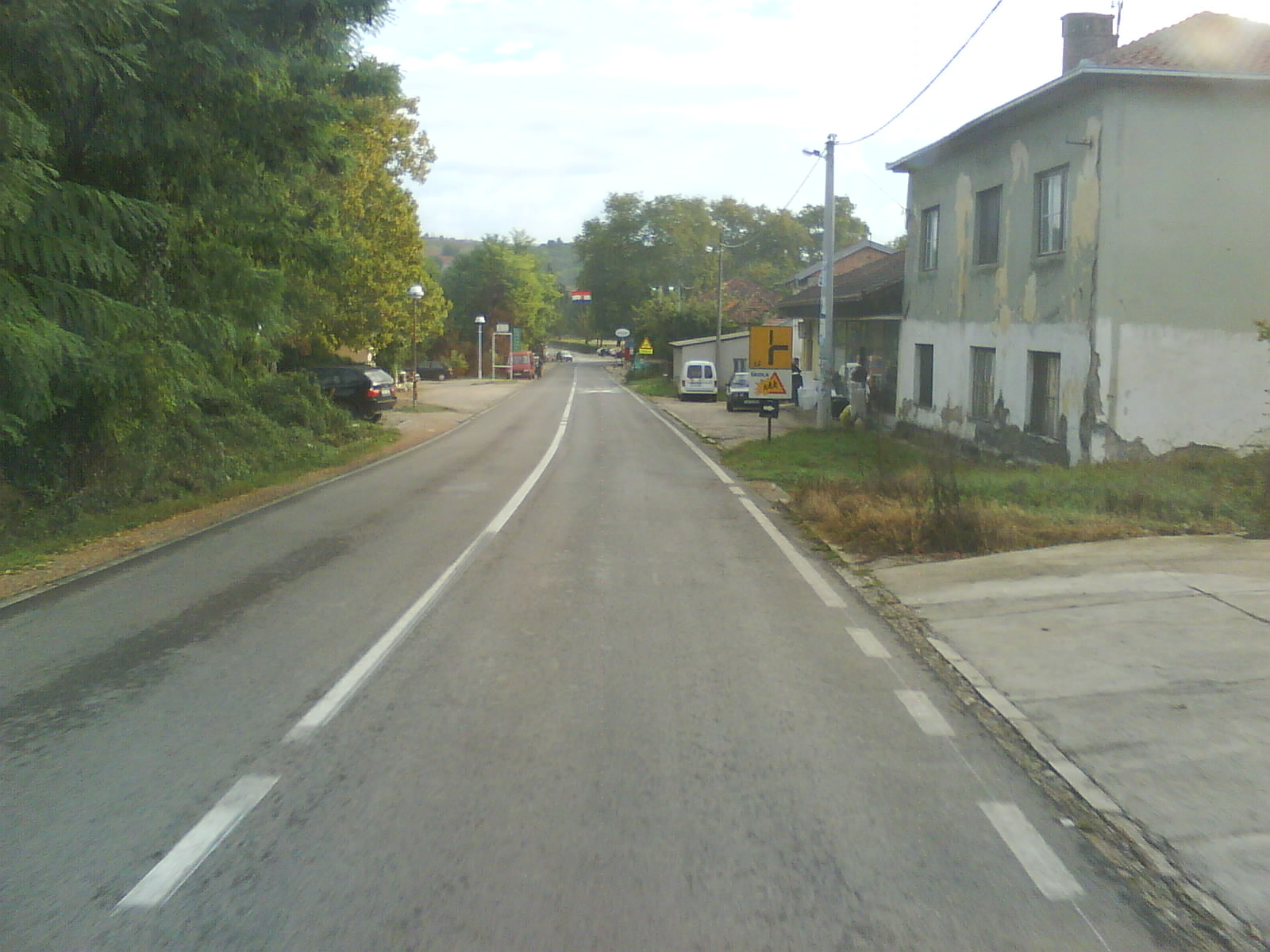 Domanovići village in municipality of Čapljina